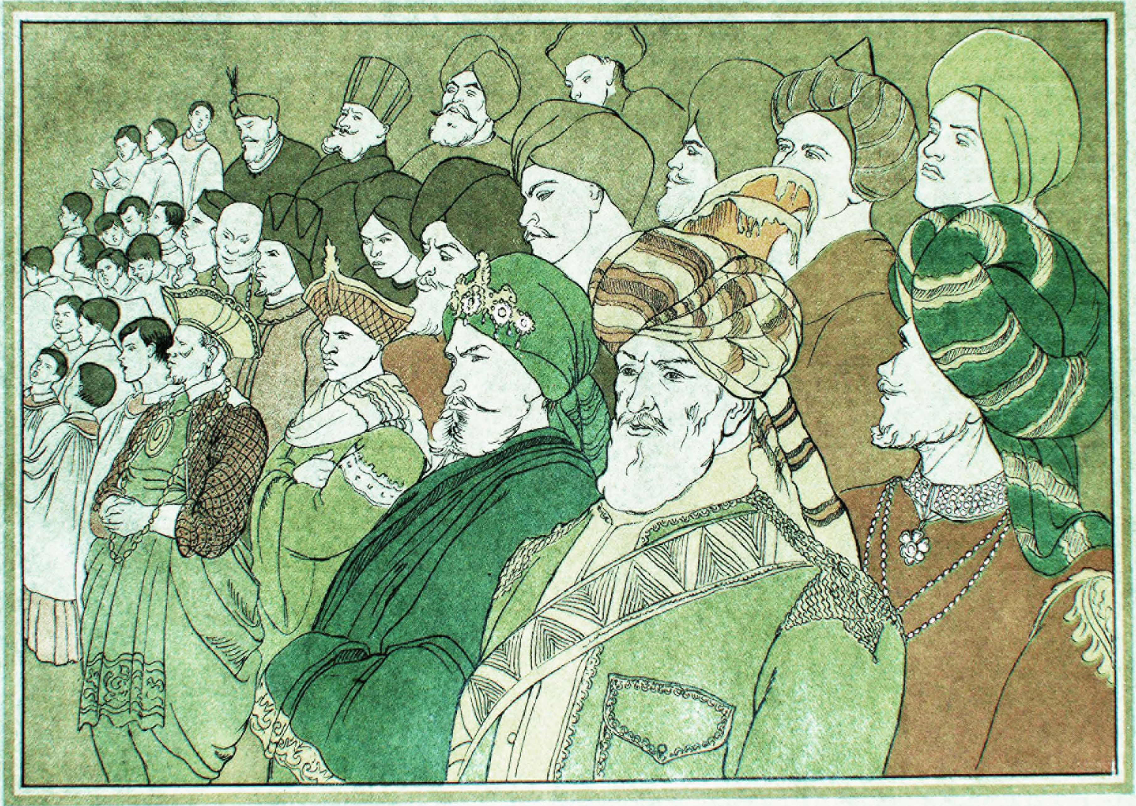 Coronation of Edward VII of England. Illustration (recto, page 47) from The Masque of the Edwards of England, published in 1902.